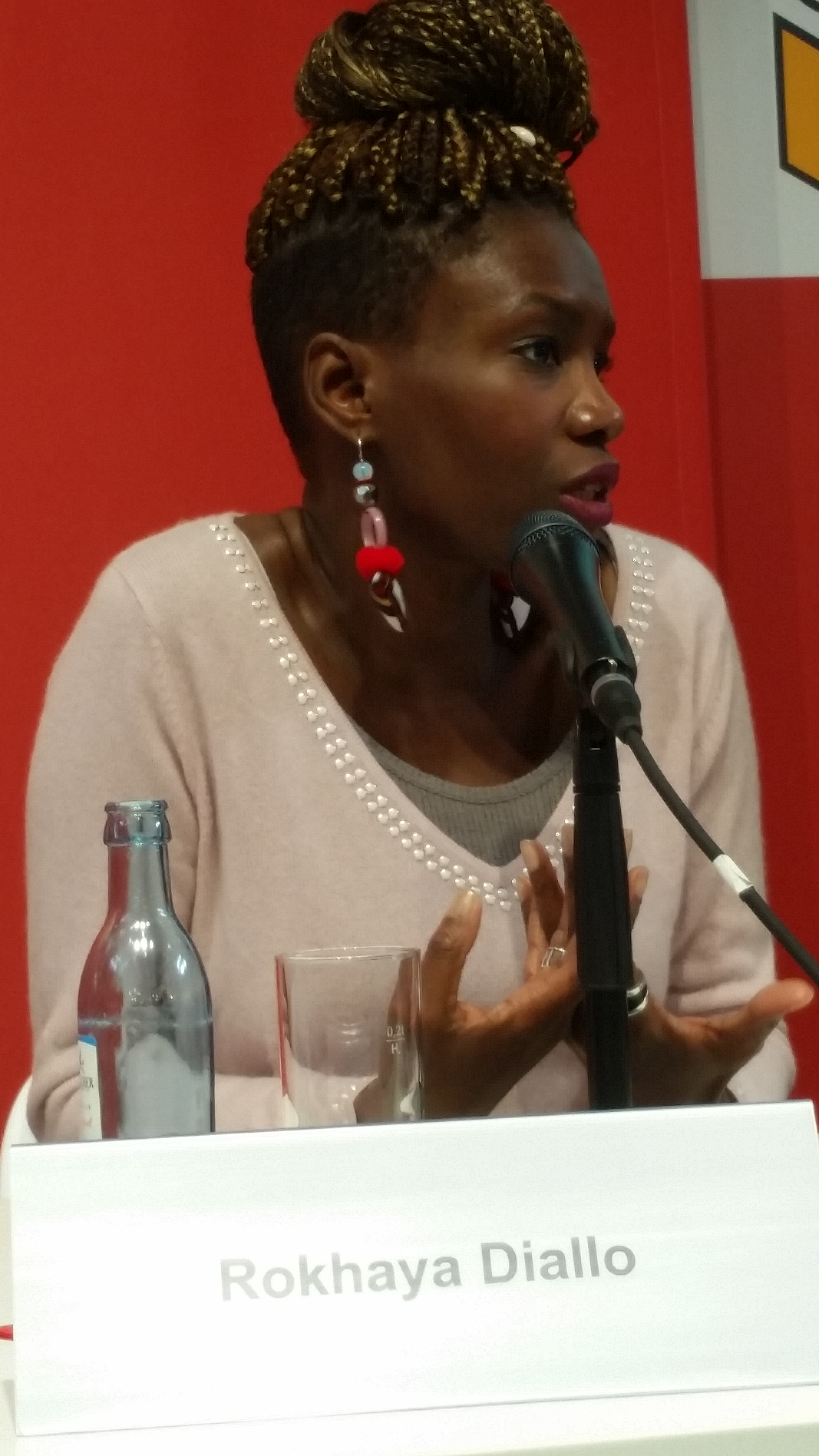 Rokhaya Diallo at the Leipzig Book Fair